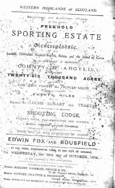 26,000 Acre Sale Brochure inc Glencripesdale, Rahoy, Laudale Liddesdale, Kinlochteacus & Carna